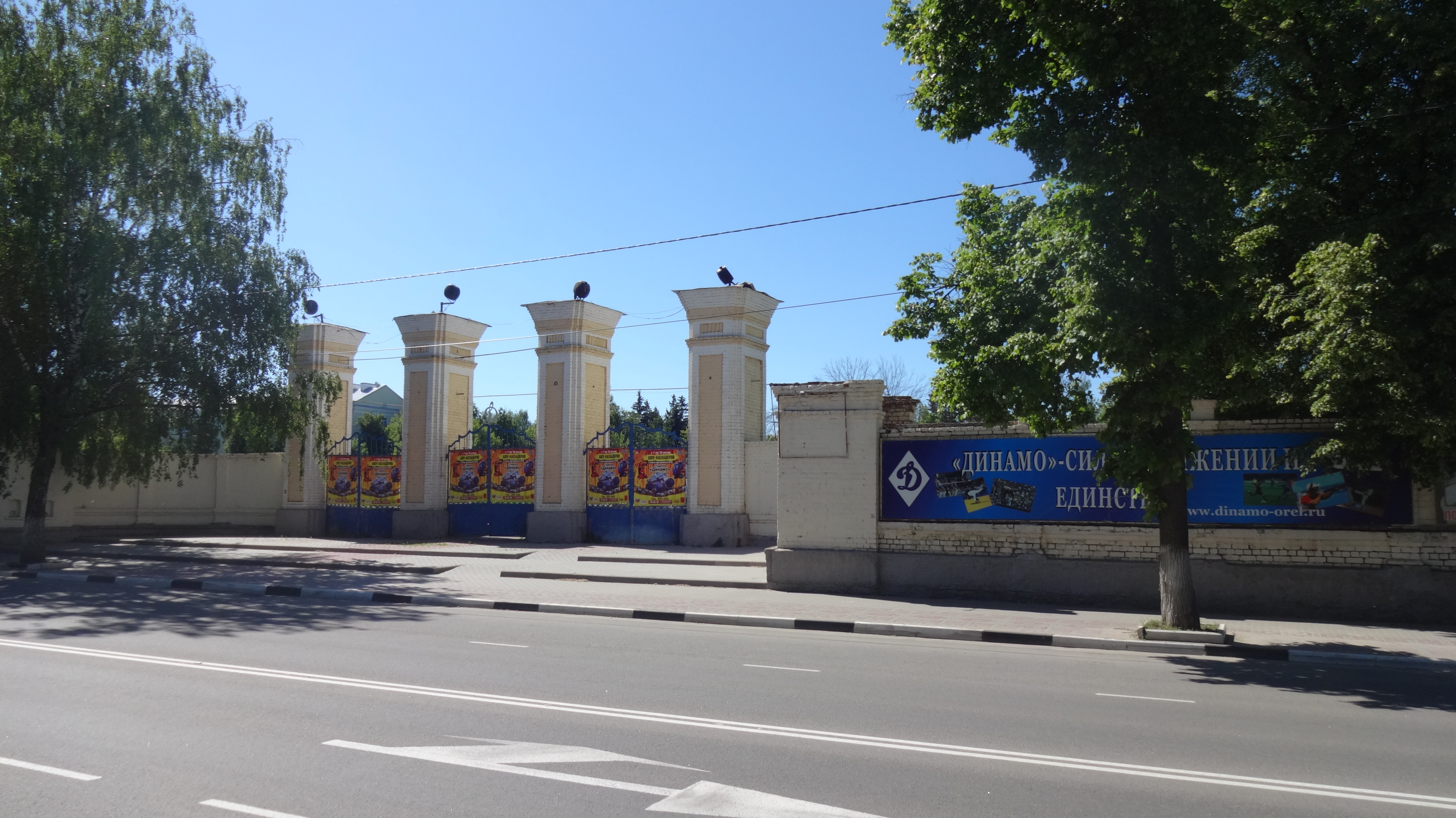 The Central Stadium of Oryol. Facade.